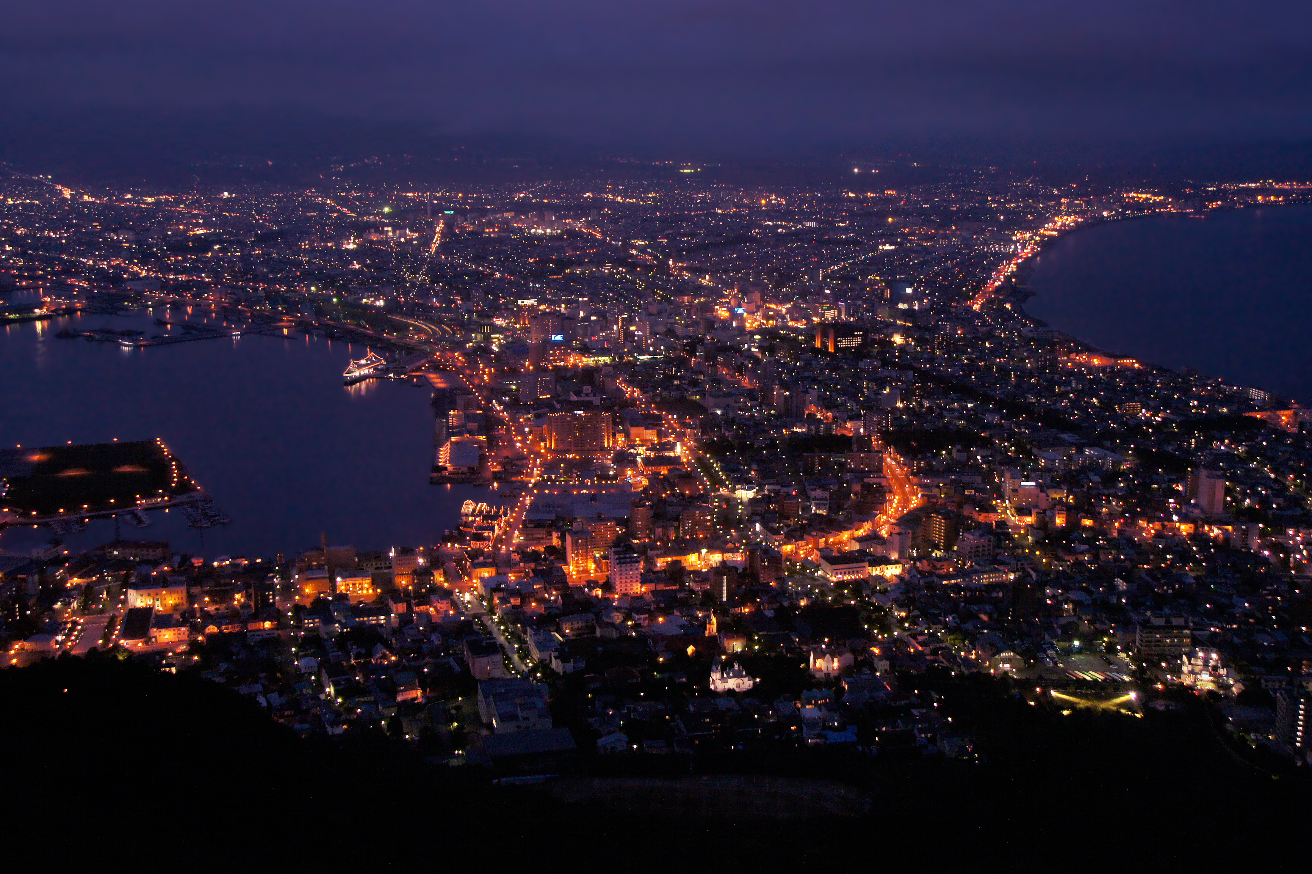 Views from Mount Hakodate in Hakodate, Hokkaido prefecture, Japan